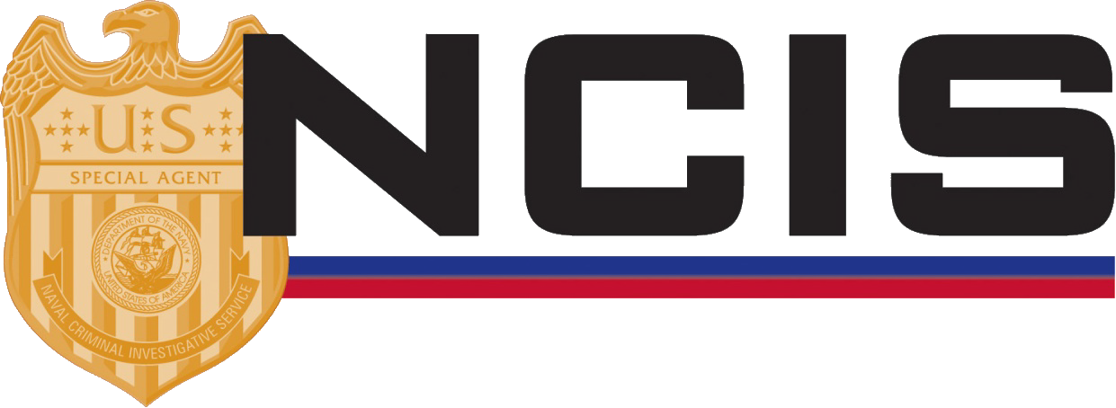 The official logo of NCIS (as of February 2013)